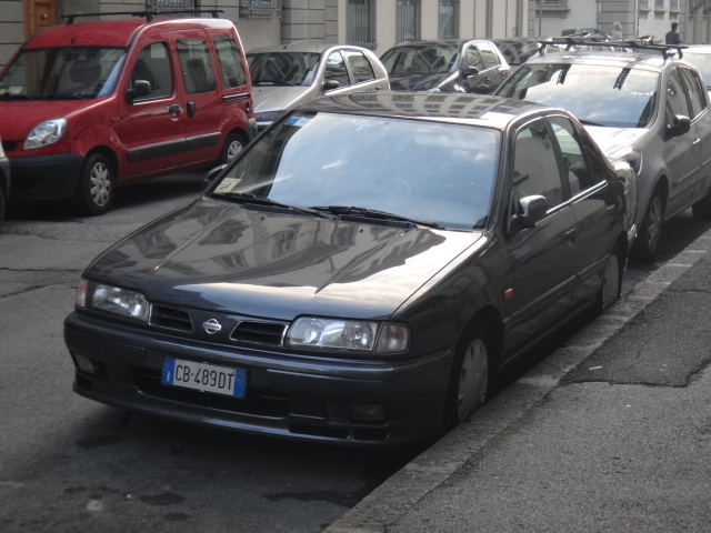 This was without a doubt the best example of a Primera I saw! Every other one I had seen looked like it was about to die, but this one looked very tidy. Again, Primera's of any generation, have never been sold in Australia. I think at one stage, Nissan Australia was keen to get this model, or the one after this, onto the Australian market, but when you would compare one next to a Nissan Pulsar/Sunny sedan of the same era, it just didn't seem to make sense. The two cars seemed very close in size to one another and most people, in Australia, would've gone for the Pulsar over this.